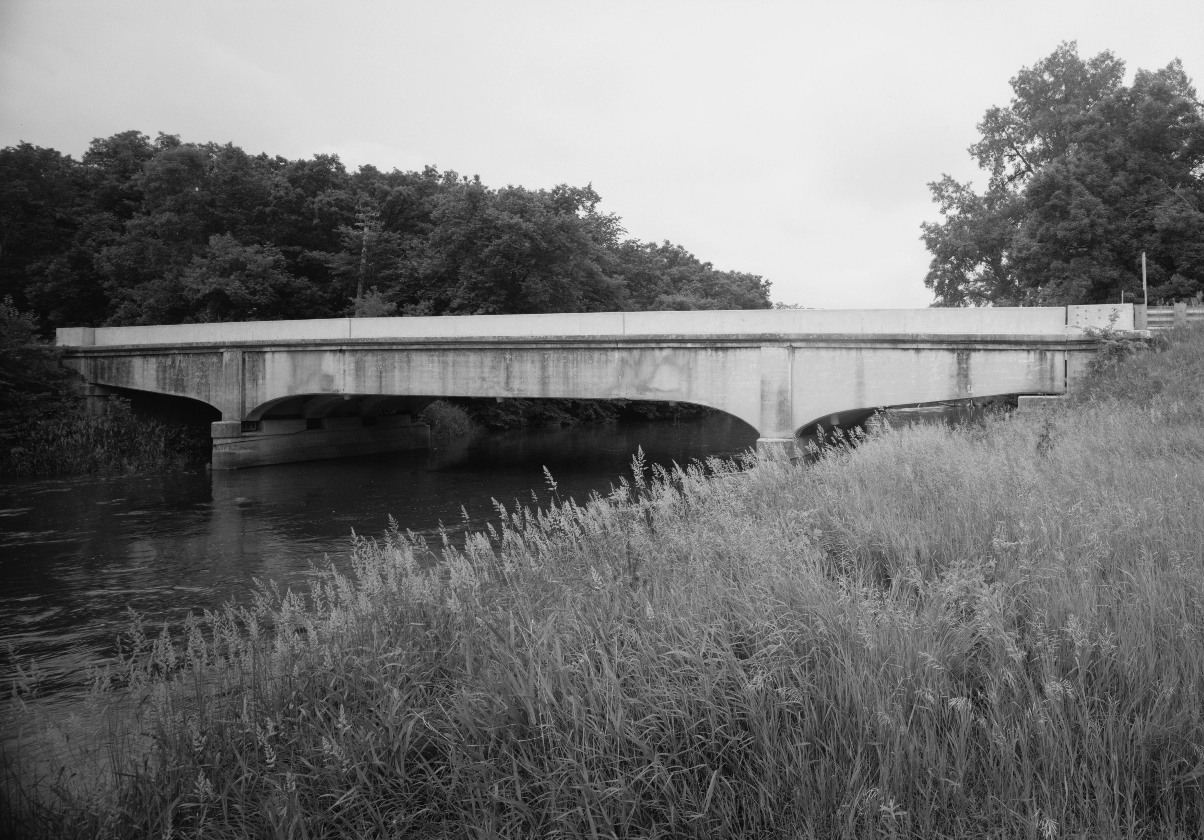 Eastern side of the Winnebago River Bridge, which carries U.S. Route 65 over the Winnebago River near Mason City in Cerro Gordo County, Iowa, United States. Built in 1926, this concrete deck girder bridge is listed on the National Register of Historic Places.